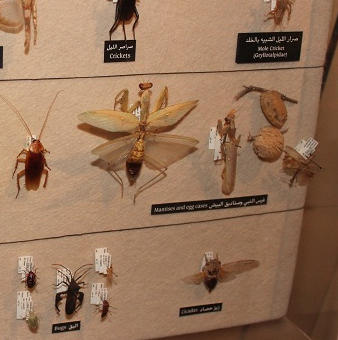 حشرات في المتحف